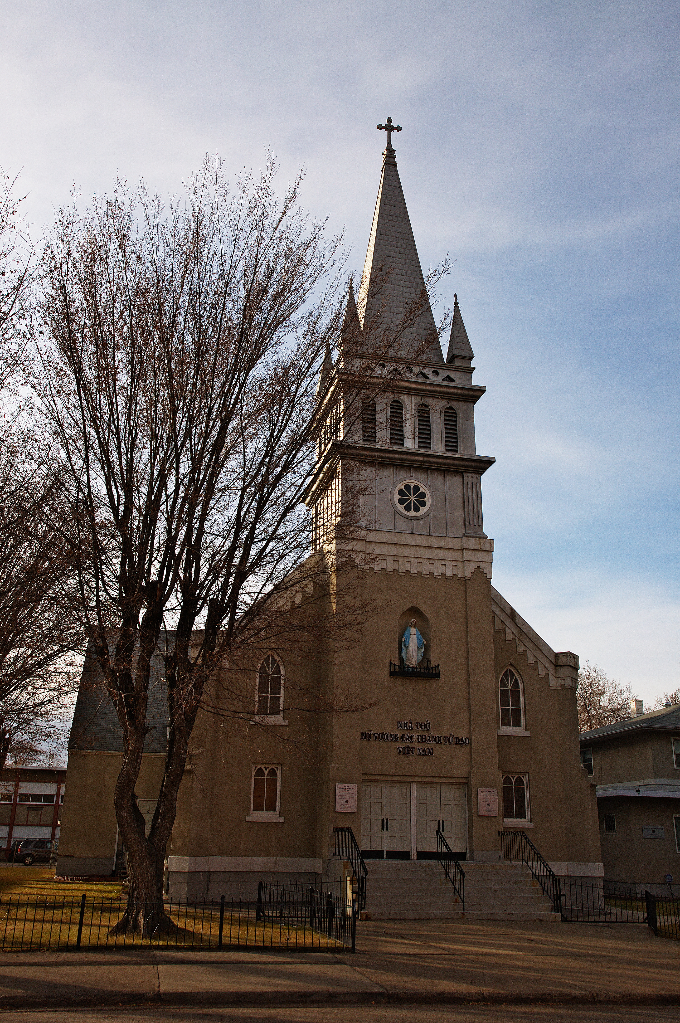 Mary Queen of Martyrs Church in Edmonton Alberta Canada. 10830 - 96 Street. 1903 Gothic revival. Originally Immaculate Conception Roman Catholic.